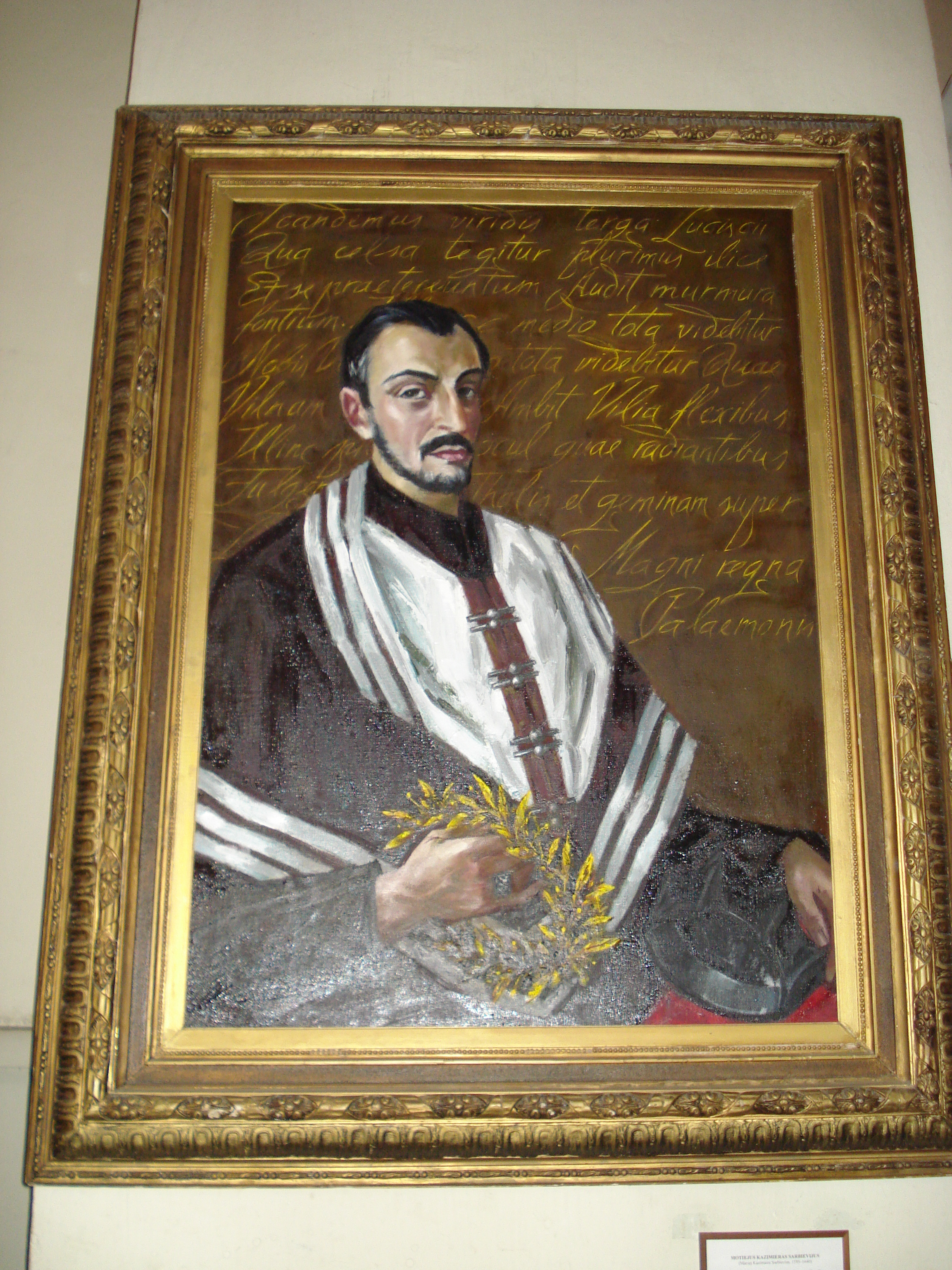 Portrait of poet Sarbevius (by Lithuanian painter Sofija Veiverytė, born 1926) in the Church of St. Johns (Vilnius). 2007